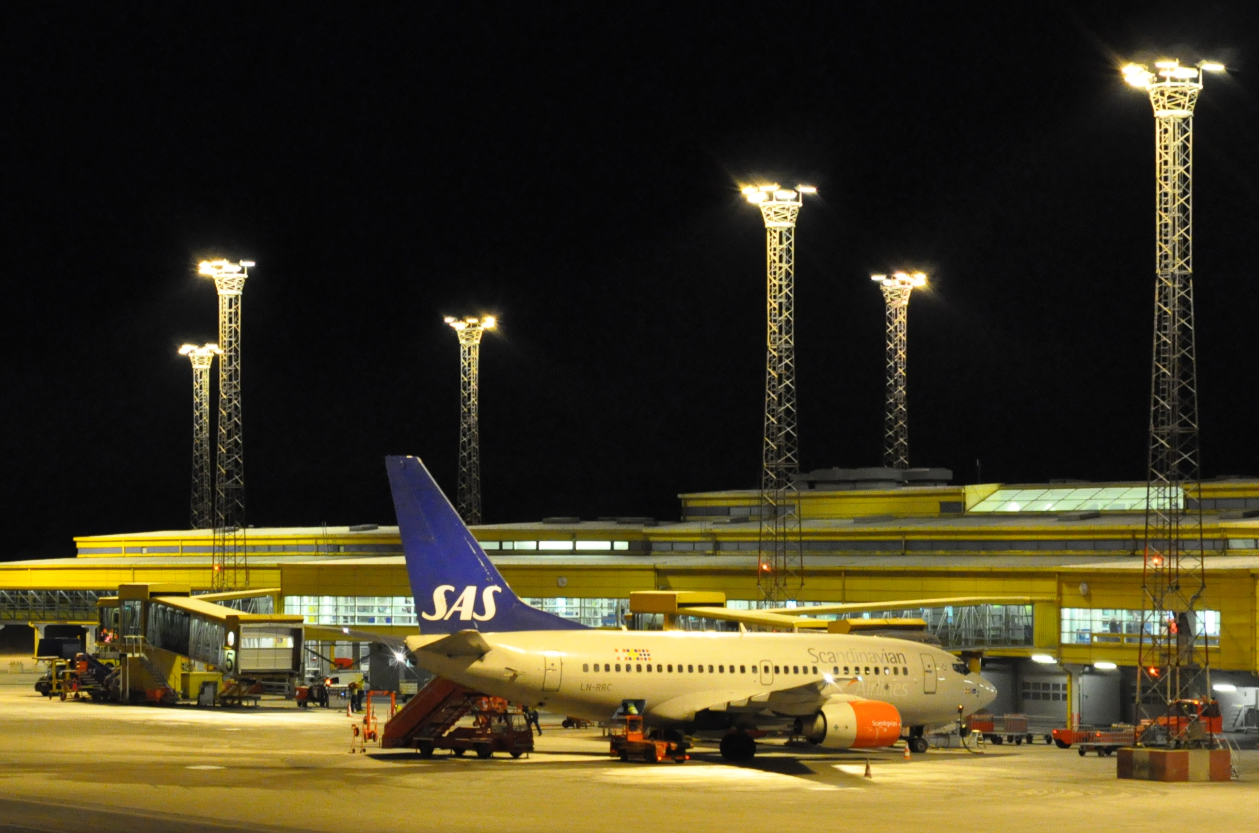 Malmö airport in Southern Sweden.